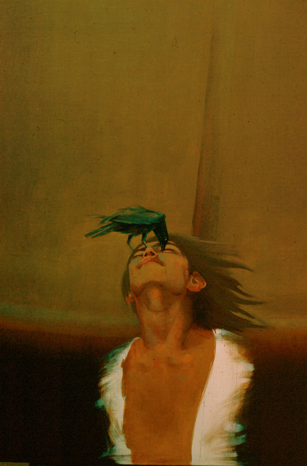 Man's Destiny Oil On Canvas 1980